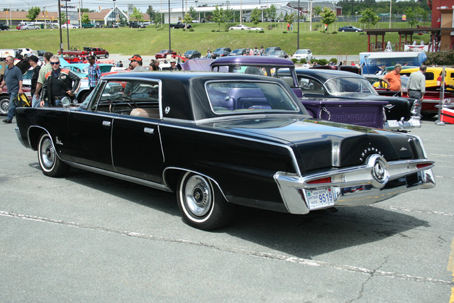 Imperial